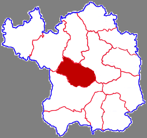 Location of Ganquan county in Yan'an city, China